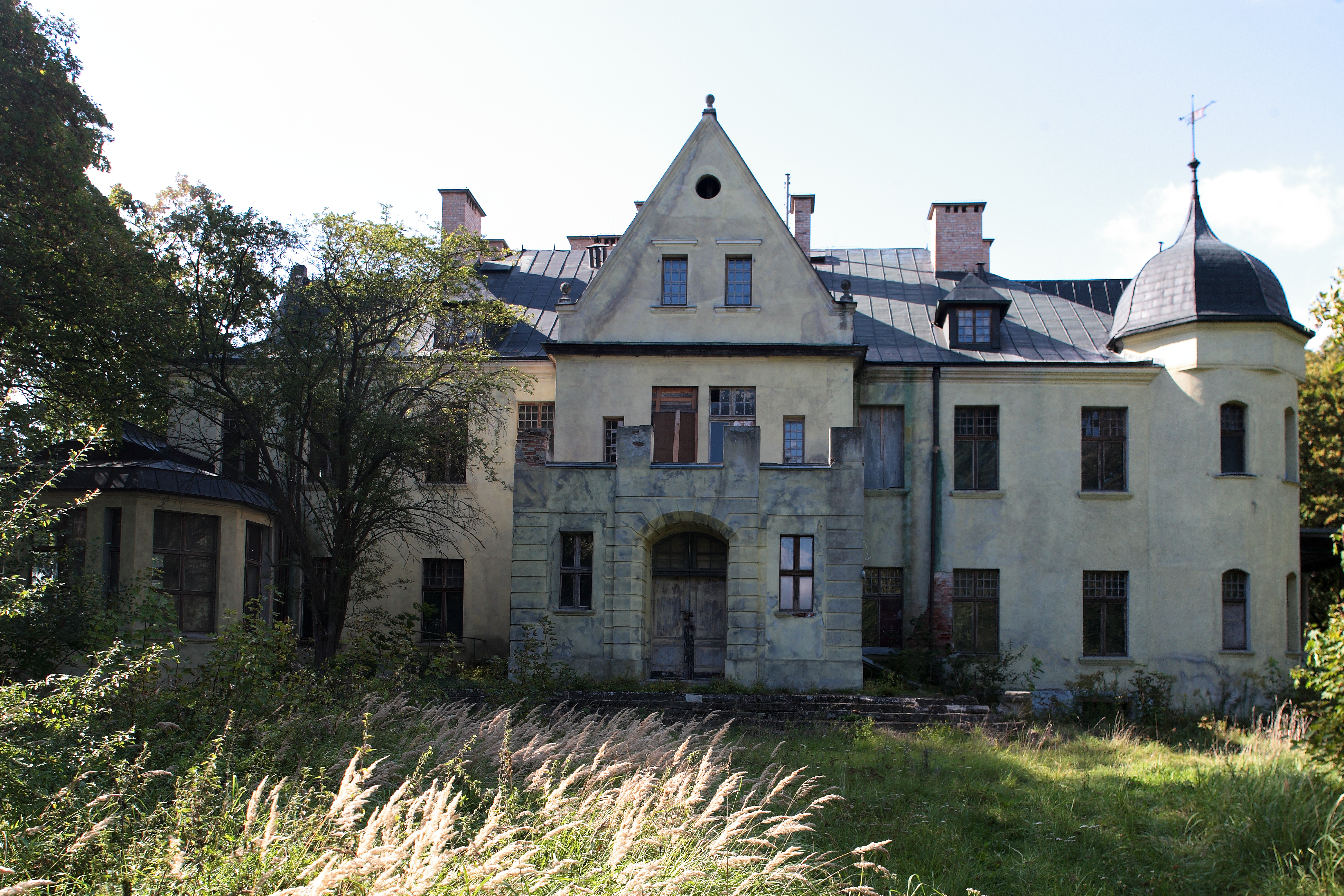 Jarnatów palace